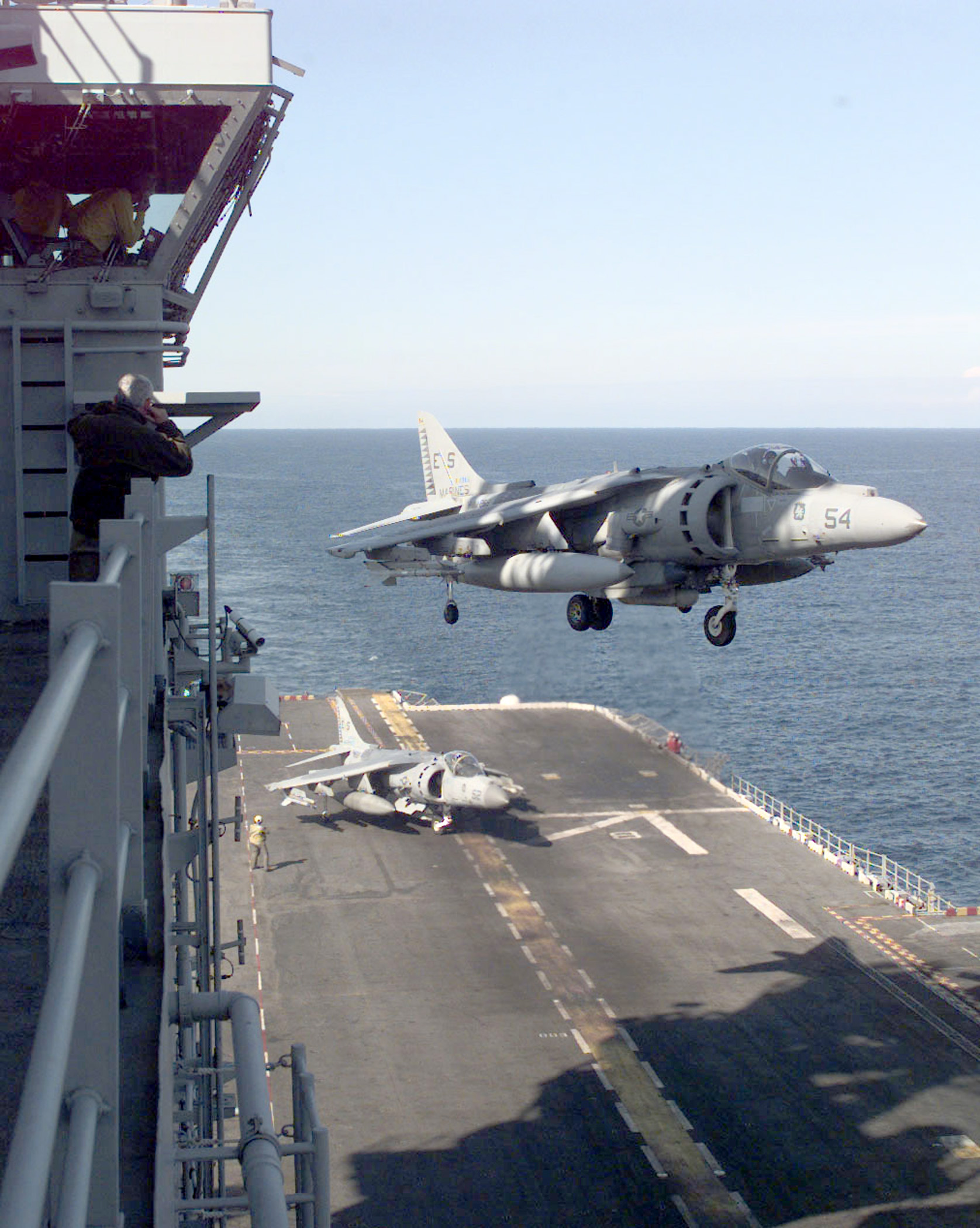 At sea aboard USS Nassau (LHA 4) April 14, 1999 -- The Air Boss watches as the last AV-8B "Harrier" from Helicopter Medium Squadron Two Six Six (HMM-266) lands on board USS Nassau following a strike mission into Kosovo. Embarked aboard USS Nassau, HMM-266 launched the amphibious battle group's first strikes in support of NATO Operation Allied Force. U.S. Navy photograph by Photographer's Mate 1st Class Richard Rosser. (RELEASED)